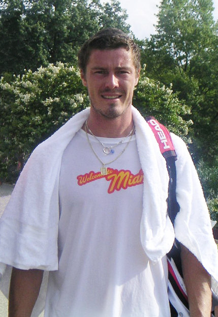 Marat Safin, former World No. 1 tennis player from Russia.